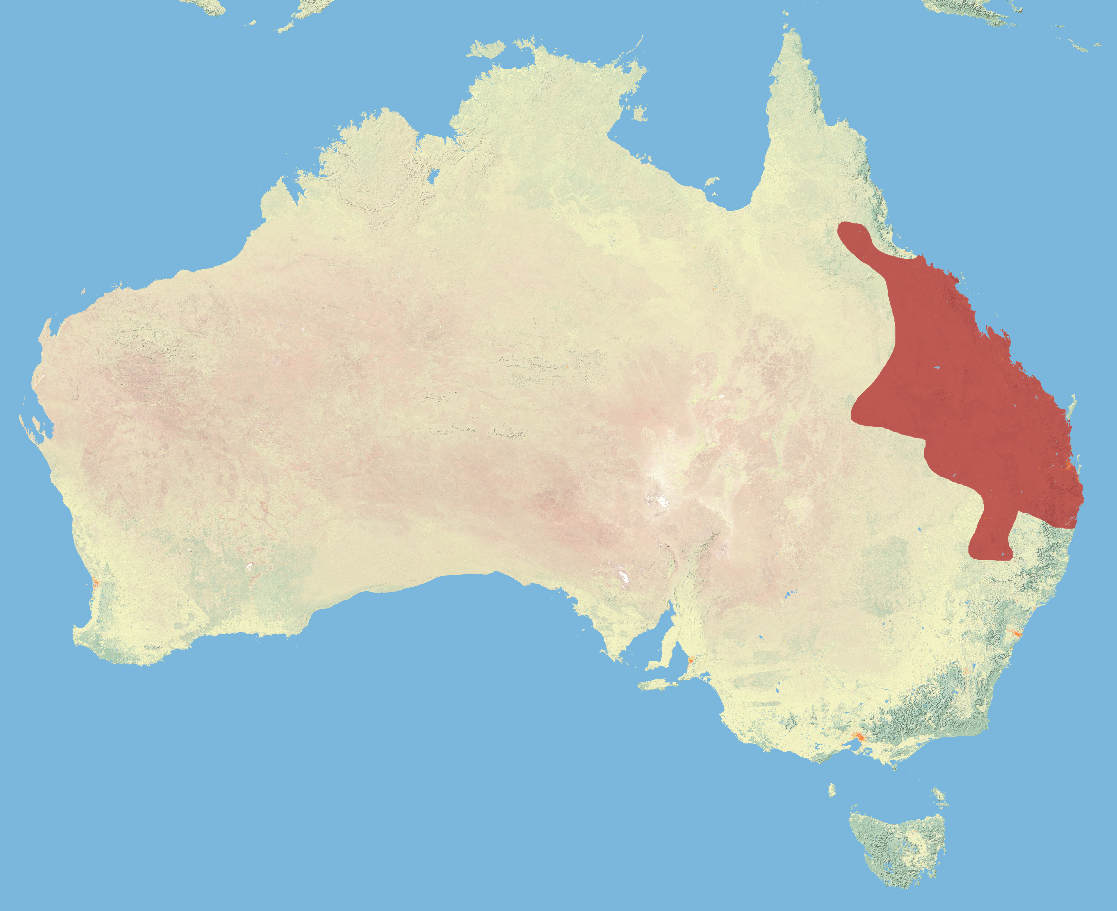 The Distribution of the Black-Striped Wallaby According to the IUCN